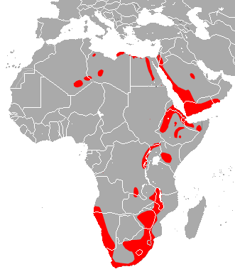 Geoffroy's Horseshoe Bat (Rhinolophus clivosus) range